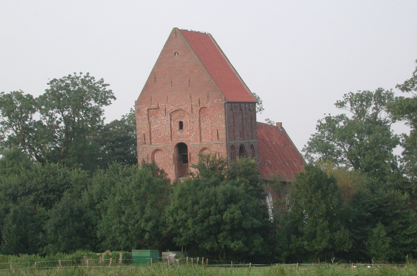 Leaning Tower of Suurhusen in East Frisia, Germany